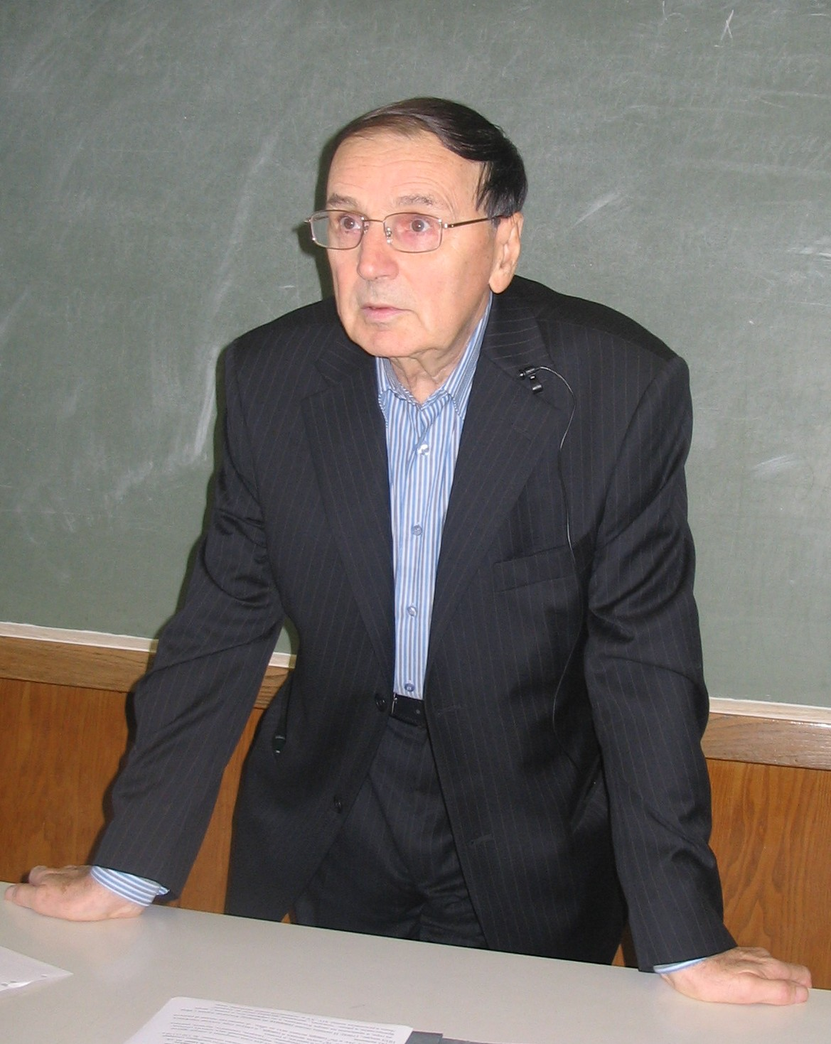 Andrei Zalizniak